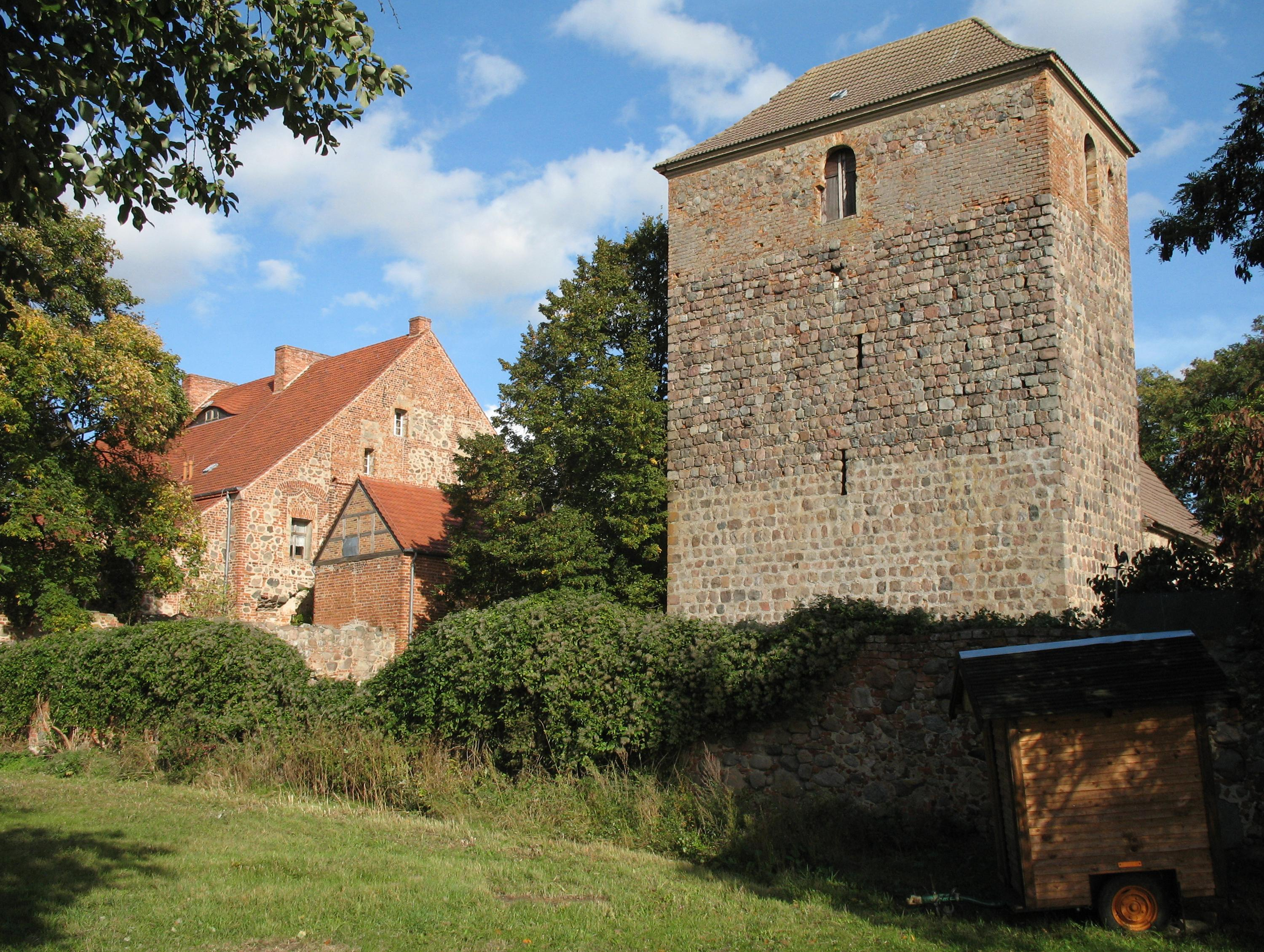 Fortified house and church in Zehdenick-Badingen in Brandenburg, Germany